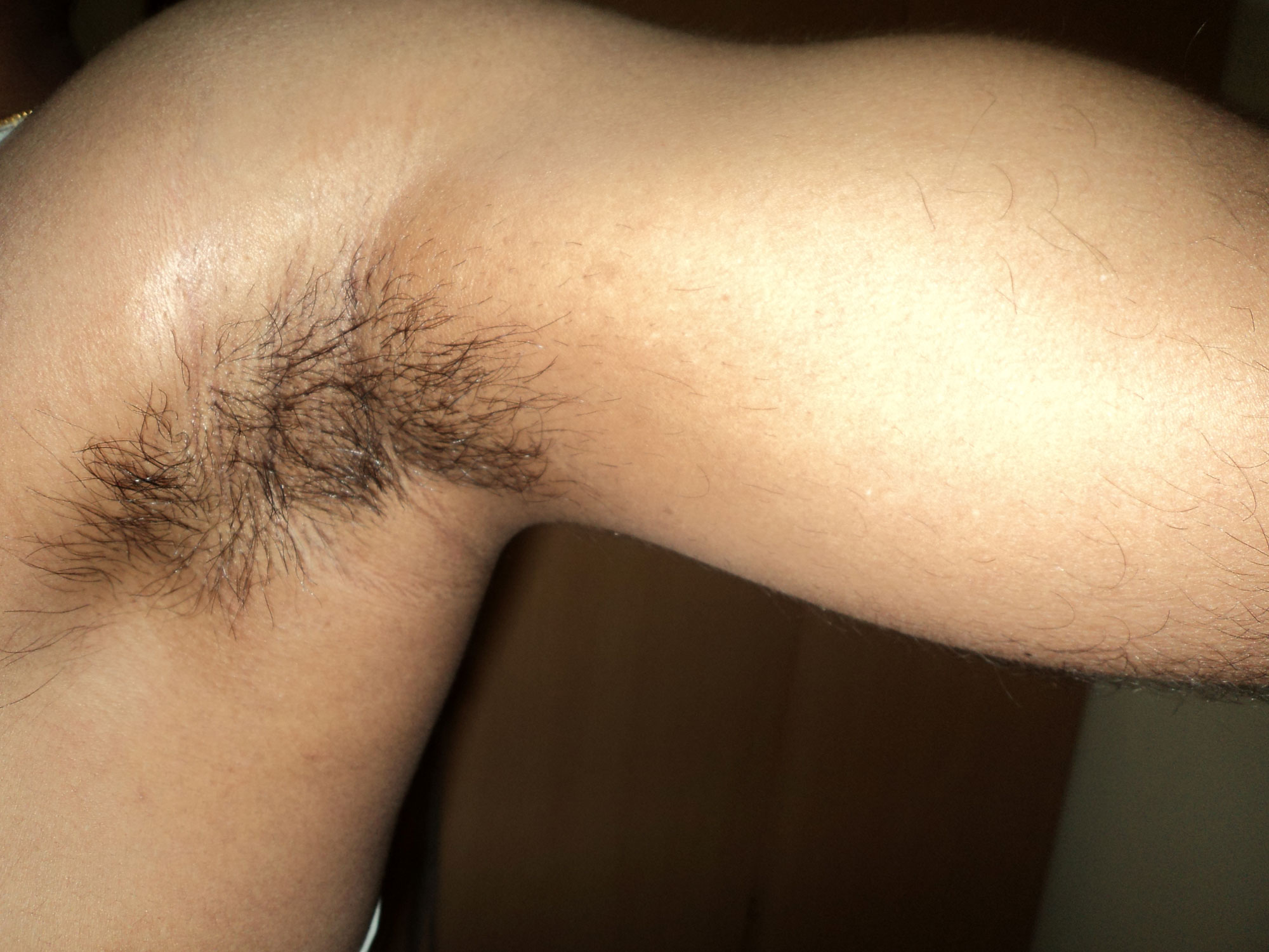 Teen Underarm Hair1